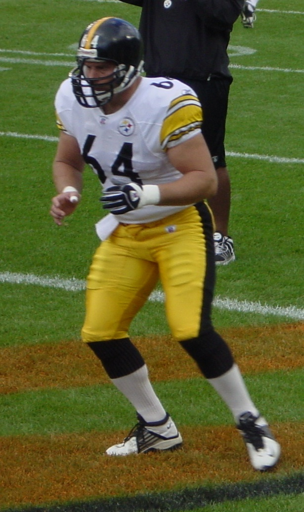 Jeff Hartings at Riverfront Stadium in 2002.